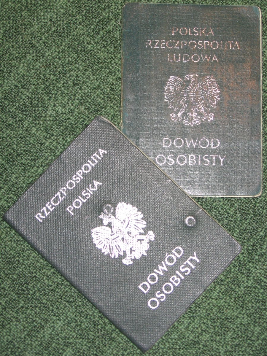 Former Polish identity documents - 1999 (left) and 1978 (right).